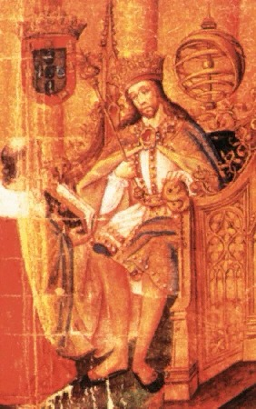 Manuel I of Portugal